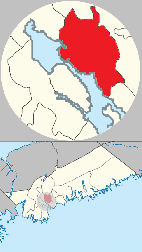 Updated map of Dartmouth, Nova Scotia in Halifax Regional Municipality to standard colours, higher resolution, using